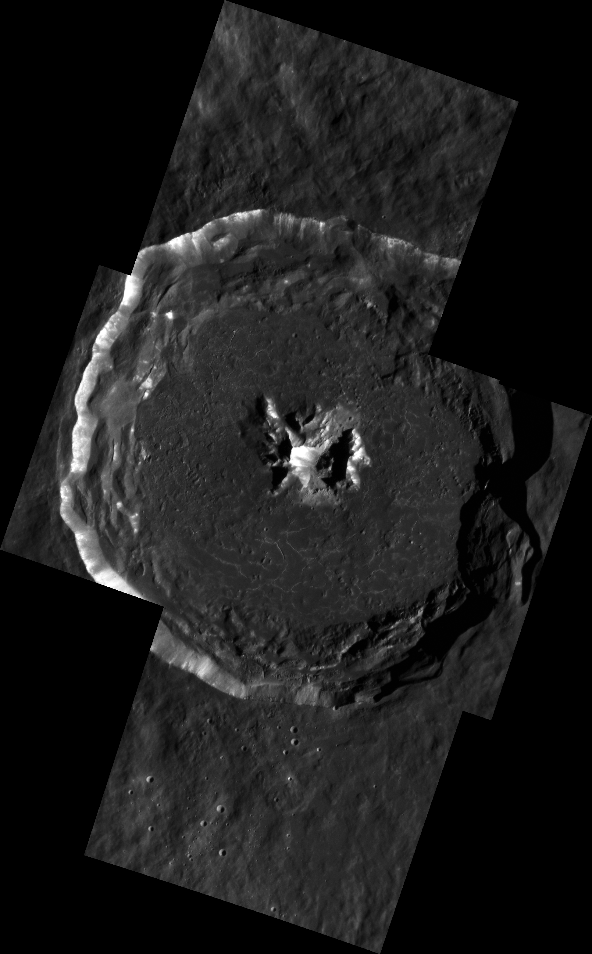 Date acquired: April 07, 2012 Image Mission Elapsed Time (MET): 242296379, 242338160, 242338176, 242338192, 242379971 Image ID: 1617565, 1619567, 1619568, 1619569, 1621694 Instrument: Narrow Angle Camera (NAC) of the Mercury Dual Imaging System (MDIS) Center Latitude: 37.1° Center Longitude: 232.7° E Resolution: 32.5 meters/pixel Scale: Degas is approximately 53 km (33 mi.) in diameter. Incidence Angle: 68.5° Emission Angle: 15.6° Phase Angle: 52.8° Of Interest: Degas crater is shown here in spectacular detail. This high-resolution mosaic is made up of five separate images. The floor of the crater contains cracks that formed as the melt sheet cooled and contracted. Downslope movement of material on the central peaks and walls has exposed fresh, bright material. This mosaic is made up of images acquired as high-resolution targeted observations. Targeted observations are images of a small area on Mercury's surface at resolutions much higher than the 200-meter/pixel morphology base map. It is not possible to cover all of Mercury's surface at this high resolution, but typically several areas of high scientific interest are imaged in this mode each week.